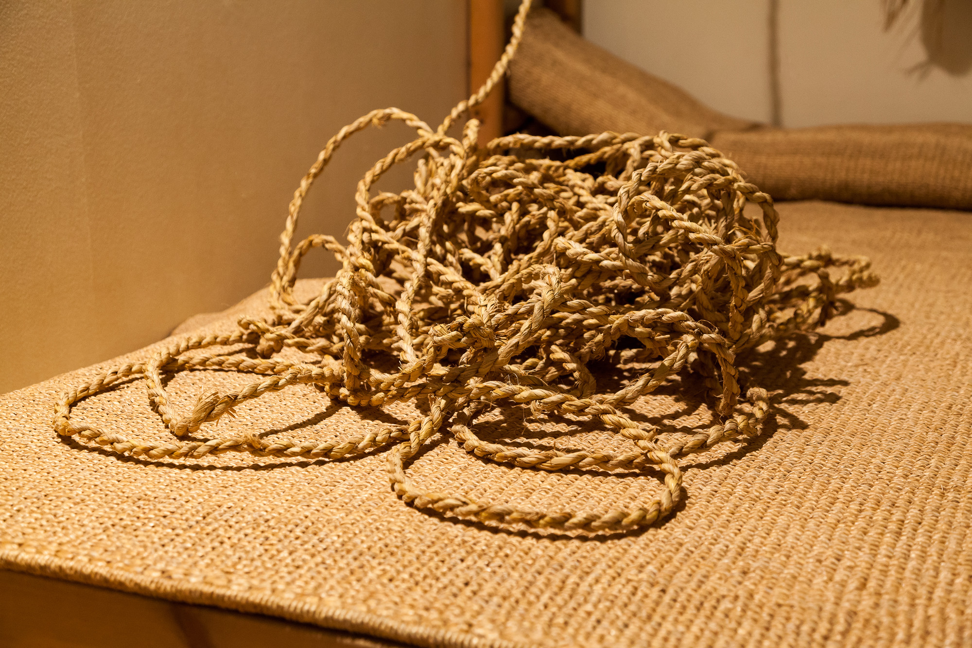 Saekki (rice straw rope)